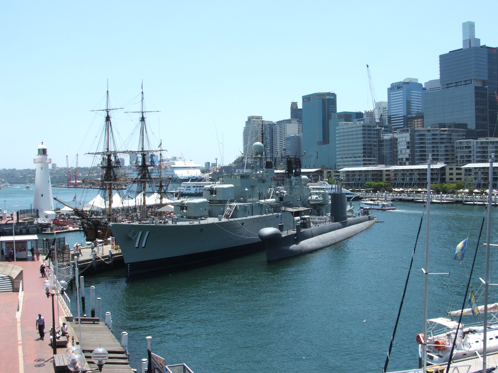 HMA Ships Onslow, Vampire and the replica HM Bark Endeavour alongside at the Australian National Maritime Museum